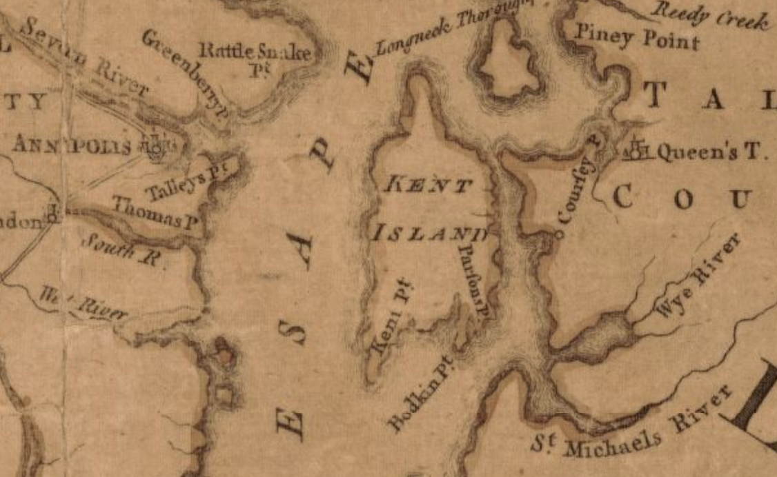 This 1775 map shows the area near Kent Island, Province of Maryland including Queenstown (to the east) and Annapolis (west across the Chesapeake Bay). The Catholic community around Queenstown, established in the 1640s, was the first on Maryland’s eastern shore.